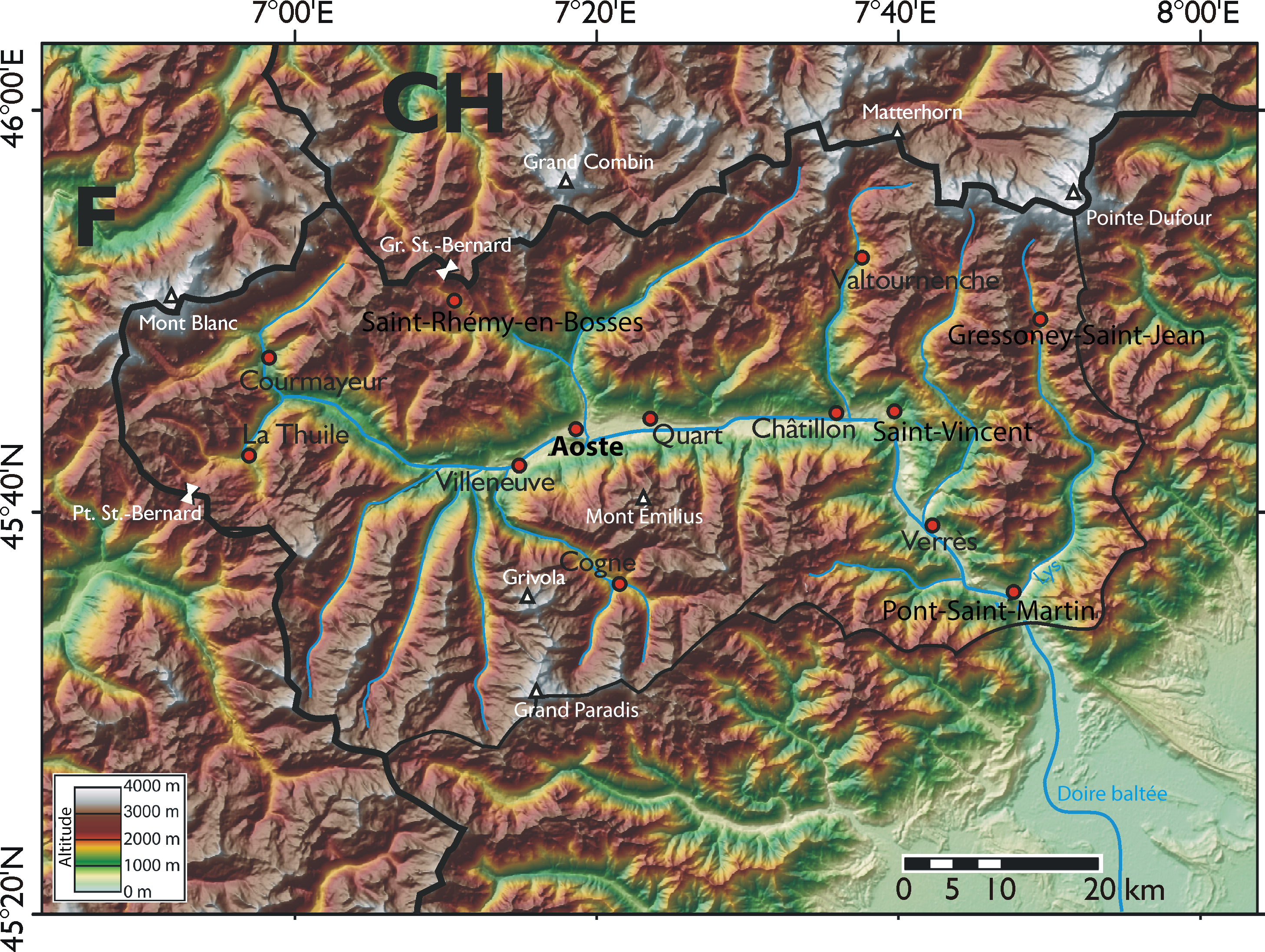 Description: Map of Valle d'Aosta / Vallée d'Aoste / Vâl d'Aoûta. Source: The underlying DEM image is this file. Hanno added mountains, rivers, borders and cities. Licence: released under the GNU Free Documentation Licence and the cc-by-sa Licence by the originator